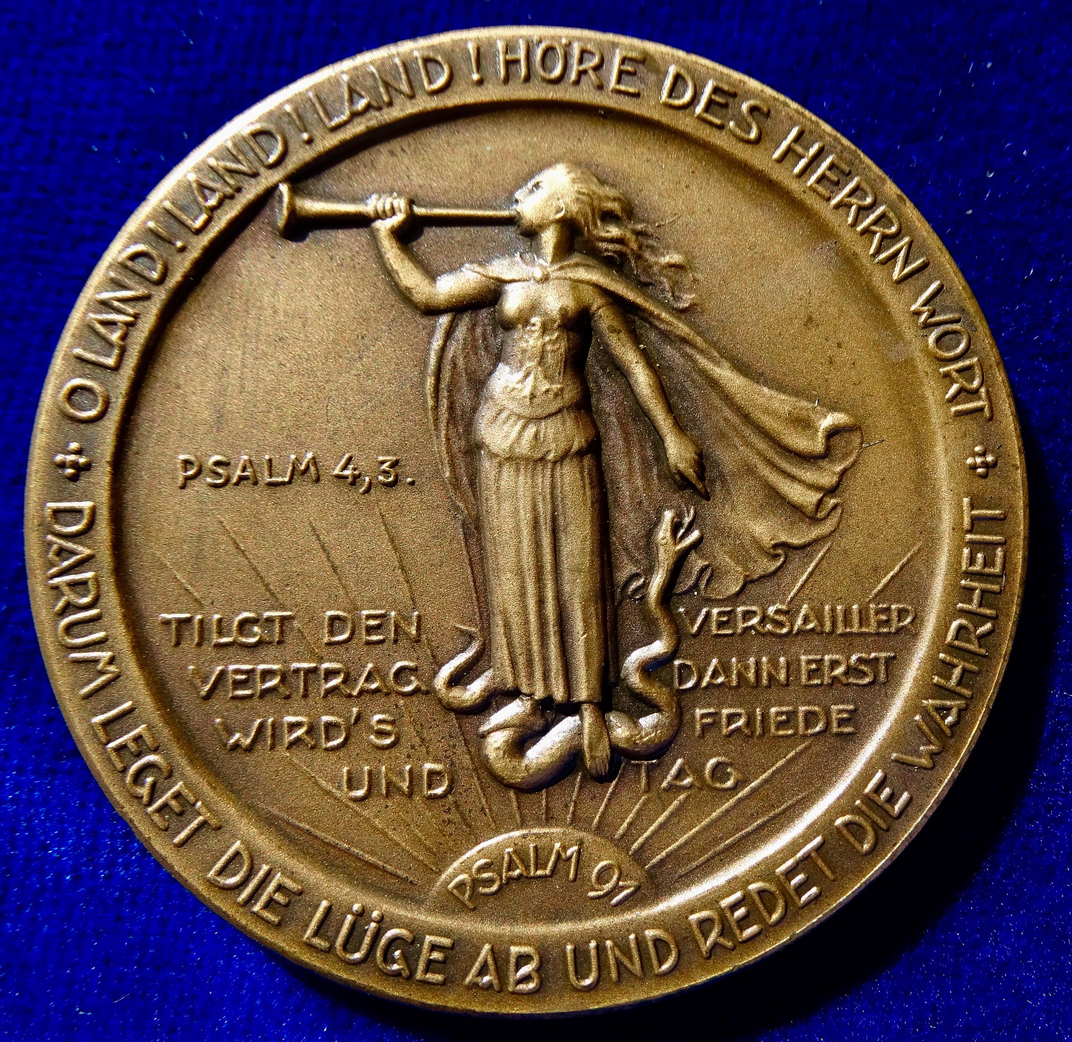 German Medal 1925, Opening of the Stockholm Universal Christian Conference in Sweden. Bronze medallion, d. = 51 mm. Hindenburg, Paul v. Beneckendorff und v. H., 1847 Posen, Duchy of Posen, Prussia (now Poznań, Poland) - 1934 Neudeck, East Prussia, today Ogrodzieniec, Poland. 4 lines below portrait l.: "BOTSCHAFT AN DIE STOCKHOLMER KONFERENZ 18. 8. 1925", surrounding: "+ MÖGEN IHRE BERATUNGEN IN DEM GEIST DER LIEBE UND DES SICHVERSTEHENS DER VÖLKER SICH VOLLZIEHEN +"/ 5 lines divided by l. standing Germania blowing a herald trumpet, and standing on a snake symbolising the Treaty of Versailles: "PSALM 4,3. TILGT DEN VERSAILLER VERTRAG DANN ERST WIRD' S FRIEDE UND TAG". In a radiant globe below: "PSALM 91". Surrounding: "+ O LAND! LAND! LAND! HÖRE DES HERRN WORT + DARUM LEGET DIE LÜGE AB UND REDET DIE WAHRHEIT +". Medallist: M. & W. ST. (Franz Wilhelm), 1846 Hanau - 1938 Condition: Almost UNCIRCULATED.